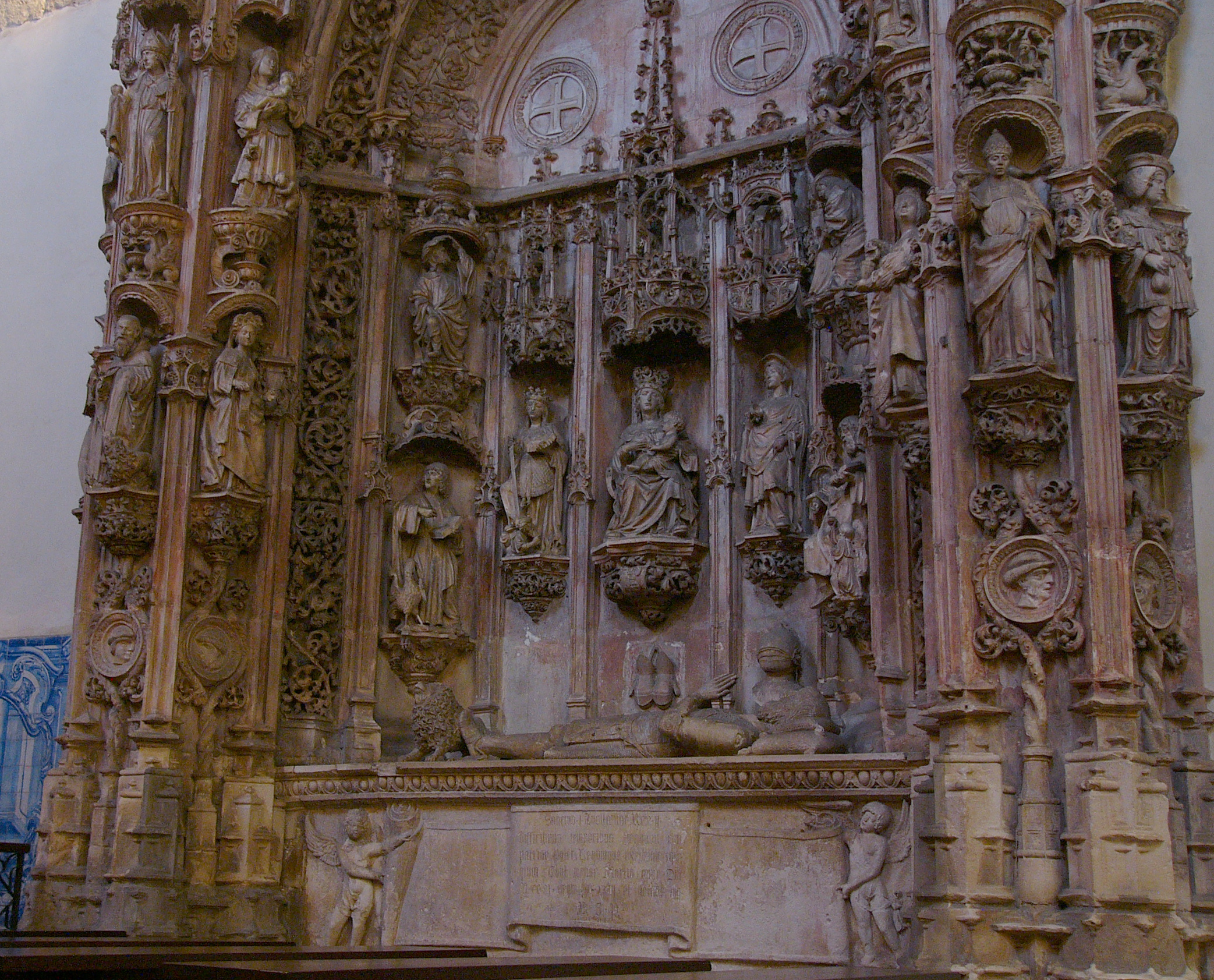 Manueline (16th c.) tomb of King Sancho I in the Santa Cruz Monastery of Coimbra, Portugal